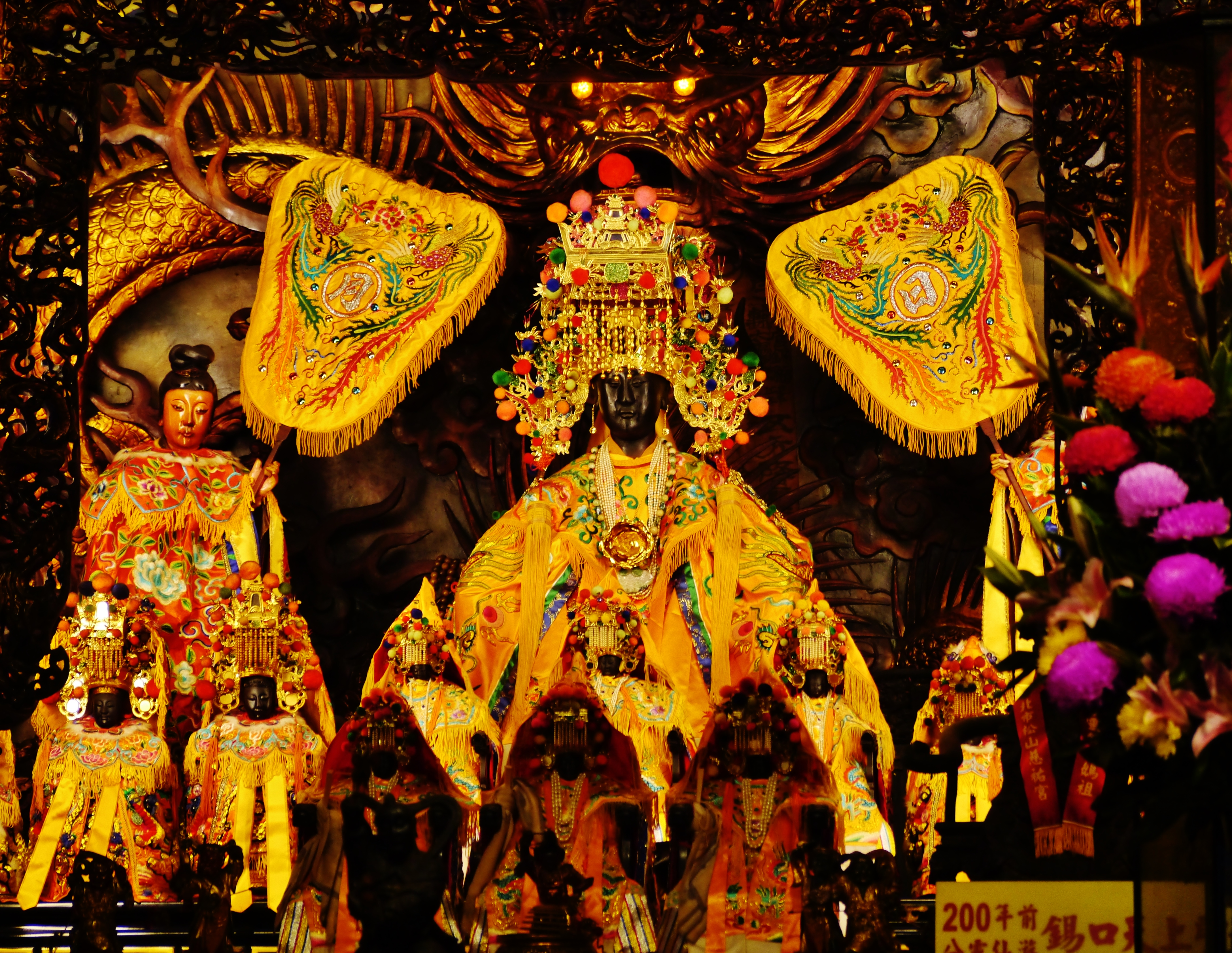 First Hall of Ciyou Temple, Taipei, Taiwan